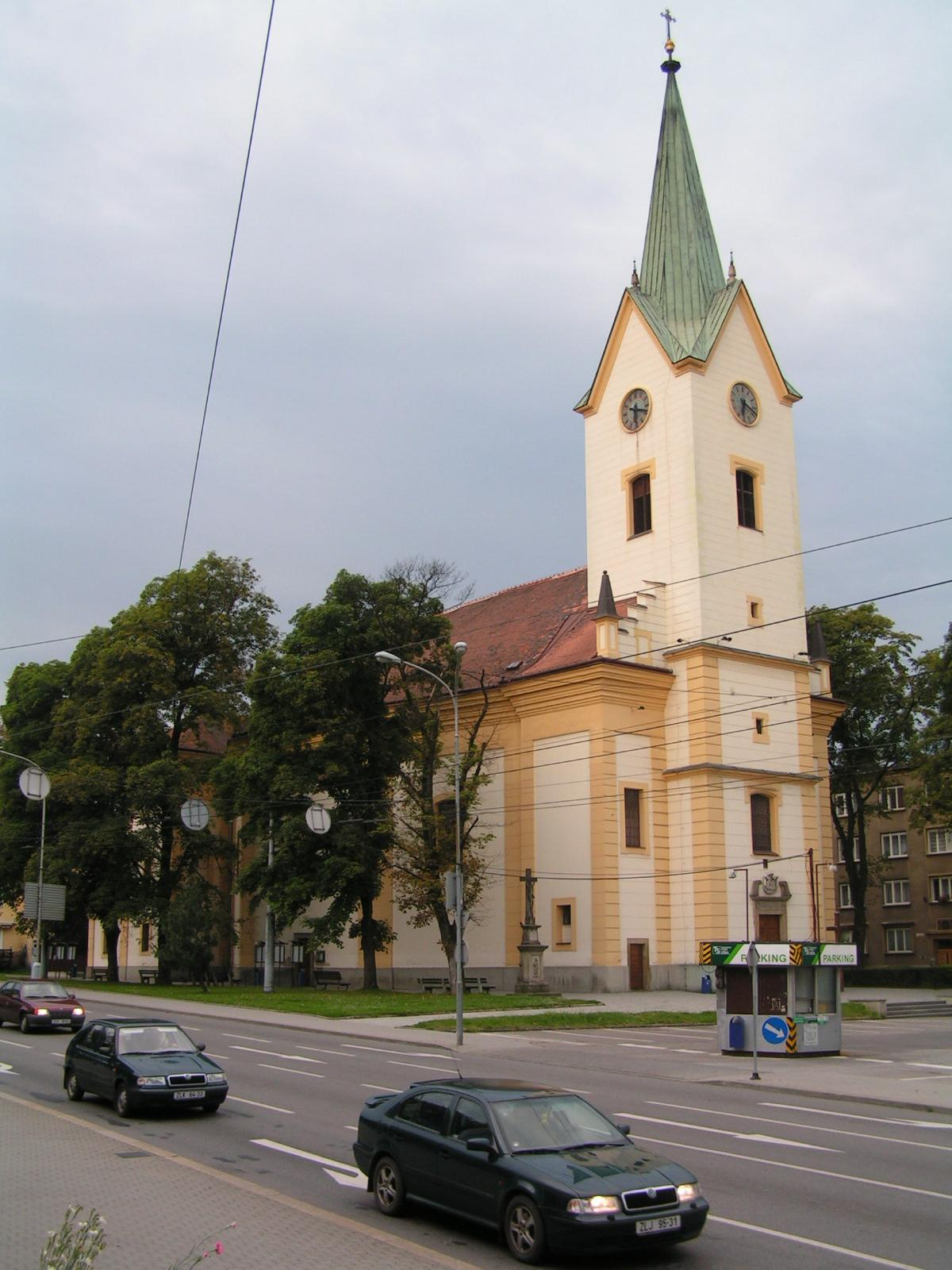 Zlín, church of saints Philip and James.